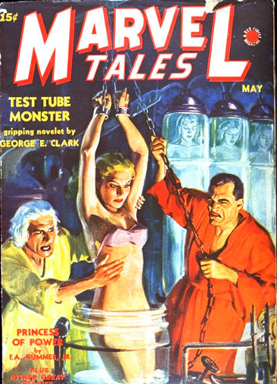 Cover of Marvel Tales, May 194